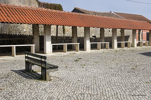 Largo do Coreto